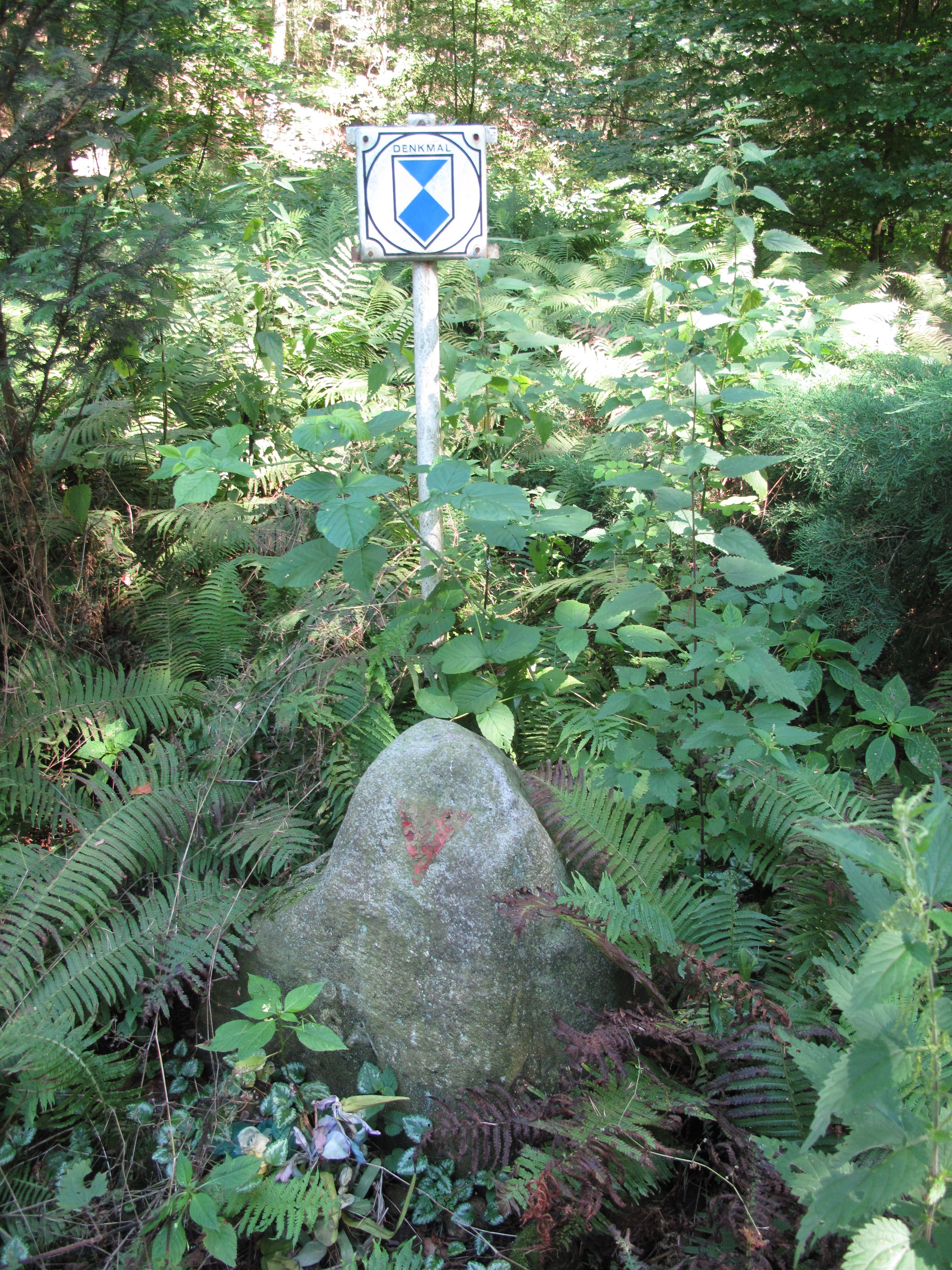 Listed memorial for the victims of National Socialism Erich and Charlotte Garske, which were murdered in December 1943 in Berlin-Plötzensee. The stone (glacial erratic) is situated nearby the Springsee in Limsdorf-Möllendorf. The village Limsdorf is a part of the town Storkow, District Oder-Spree, Brandenburg, Germany. Installed by friends already in 1944 – still during the NS-Regime – the monument is unique in Brandenburg.